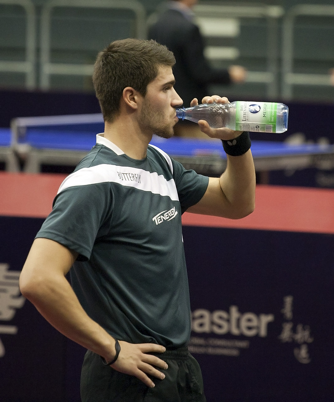 ITTF World Tour 2017 German Open, Magdeburg, Germany, 7 Nov 2017 - 12 Nov 2017, Patrick Franziska